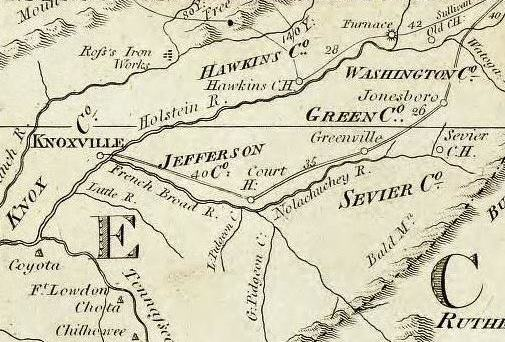 Detail from Bradley's 1796 United States postal map showing the "Washington District" of eastern Tennessee